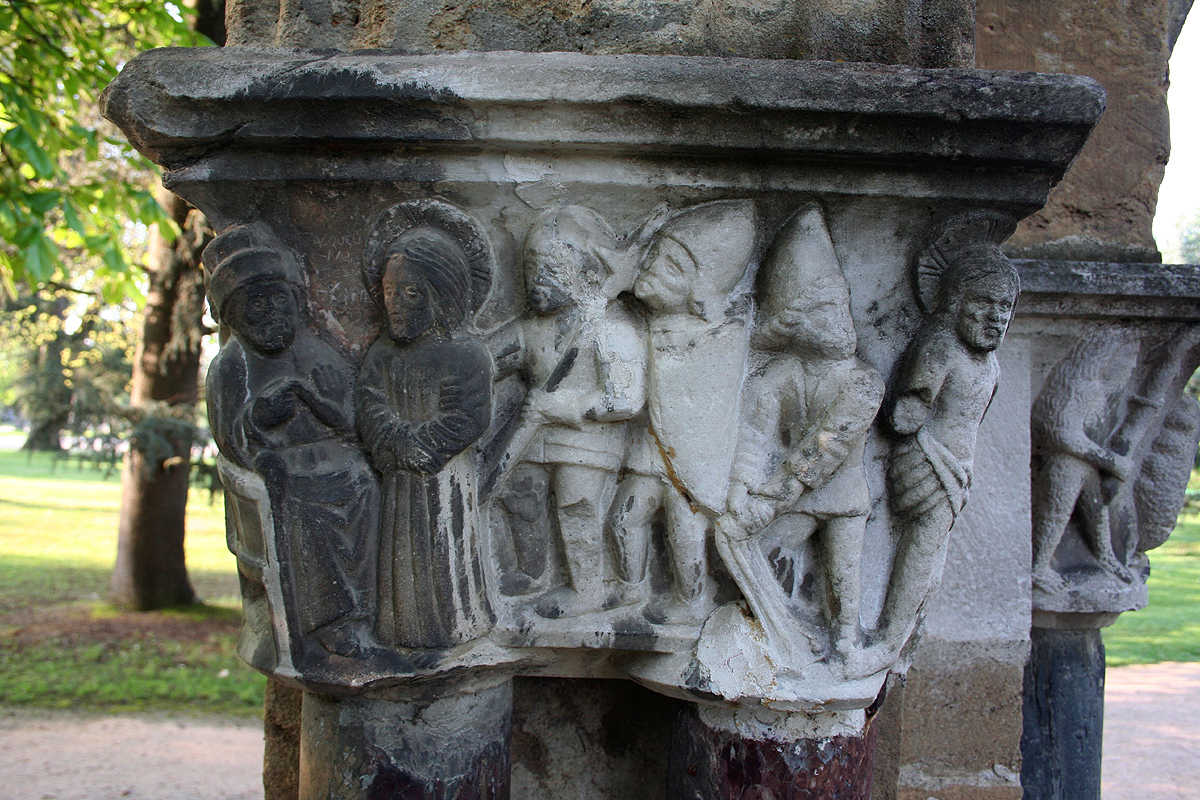 Detail from the cloister of the Saint-Sever-de-Rustan abbey, now in the Jardin Massey of Tarbes (Hautes-Pyrénées, France)